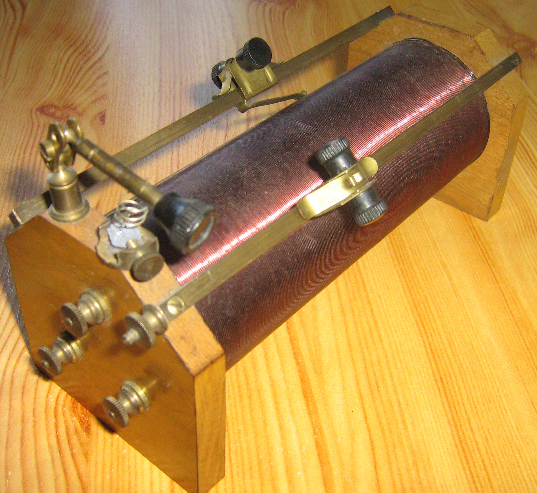 Oudin crystal radio which receives 100 KHz to 6 MHz (45 to 3000 meters). This simple type of radio is very inexpensive, and can be homemade using a coil of wire (inductor), a capacitor, a crystal detector, and an earphone. This was a type common in the 1920s called a "two-slider" circuit. One of the sliders on the coil tuned the radio to different stations, while the other one was used to adjust the impedance of the radio to match the antenna as it was tuned, increasing the strength of the signal. With a long wire antenna, night reception of powerful European stations at ranges of 2000 km is possible. However the simple circuit allows through a wide band of frequencies (has a wide bandwidth) so often two or more stations are heard at the same time.